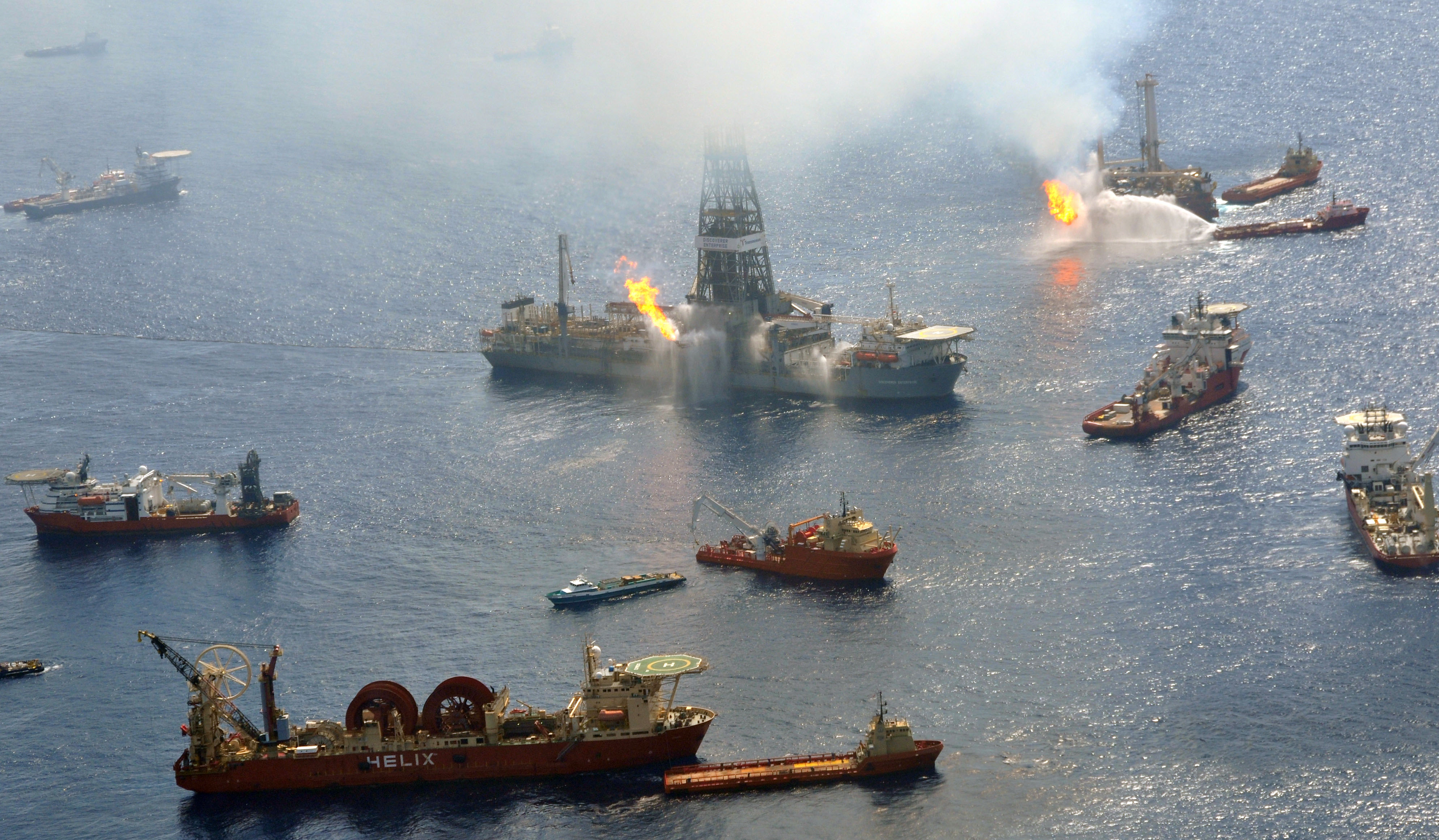 The Discoverer Enterprise and the Q4000 work around the clock burning undesirable gases from the still uncapped Deepwater Horizon well in the Gulf of Mexico. 102nd Public Affairs Deachment Photo by Spc. Casey Ware Date: 06.26.2010 Location: Biloxi, US Related Photos